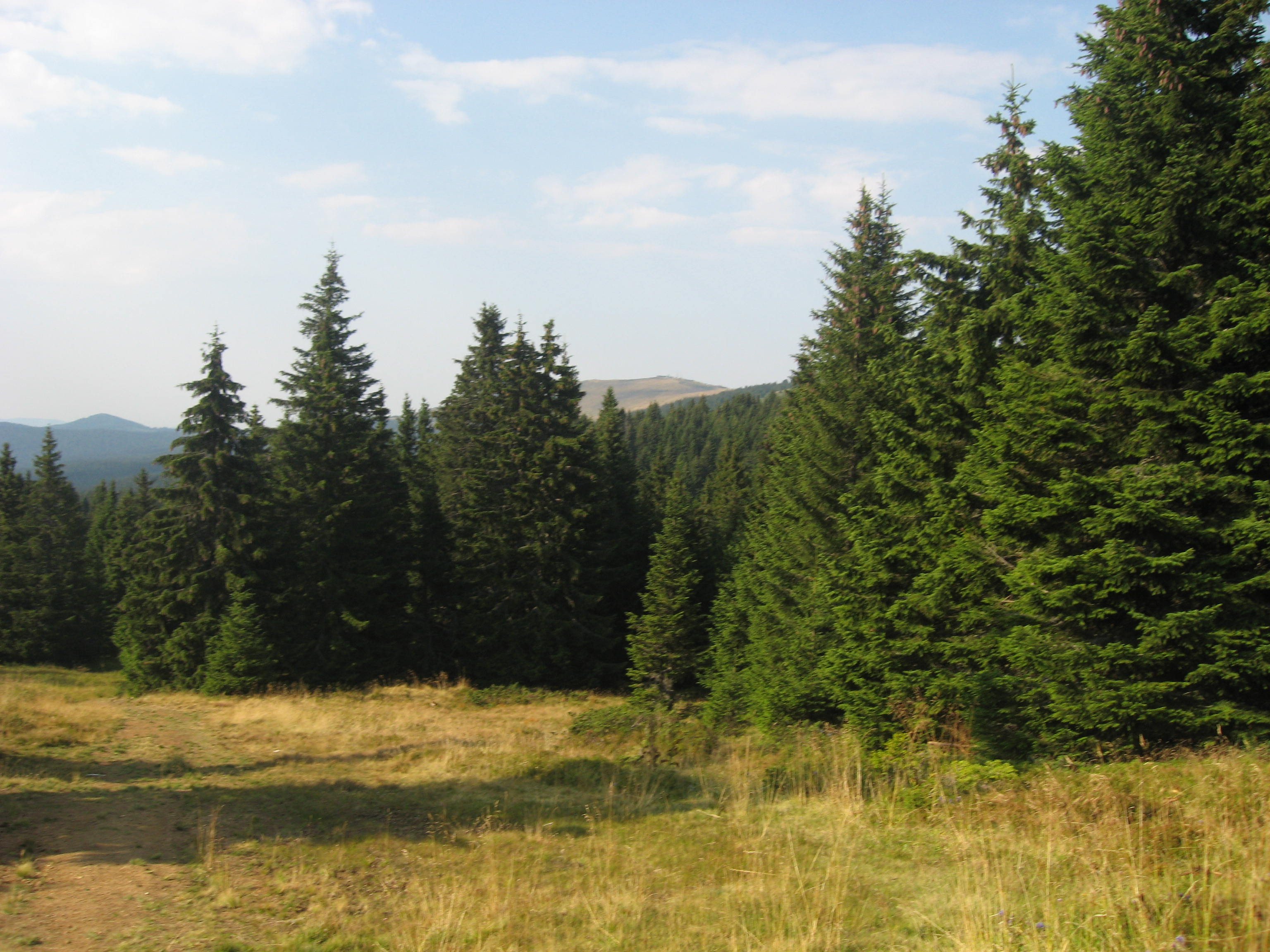 Slopes of Kopaonik with spruce (picea) trees.